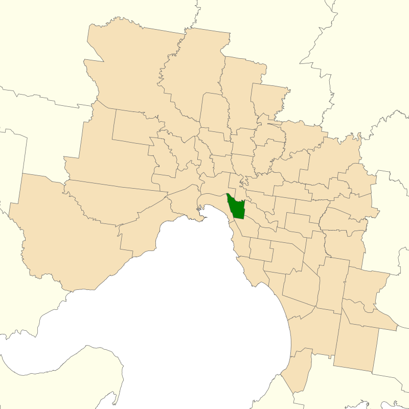 Location of the Victorian electoral district of Prahran (dark green) in the Greater Melbourne area.